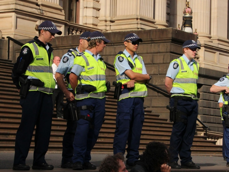 A small group of police officers in front of the Parliament House in Melbourne, Australia monitoring a small march commemorating the formation of the Melbourne Anarchist Club on 1 May 1886.